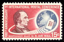 US stamp honoring Montgomery Blair